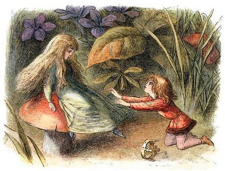 A scene of two fairies from the book Princess Nobody